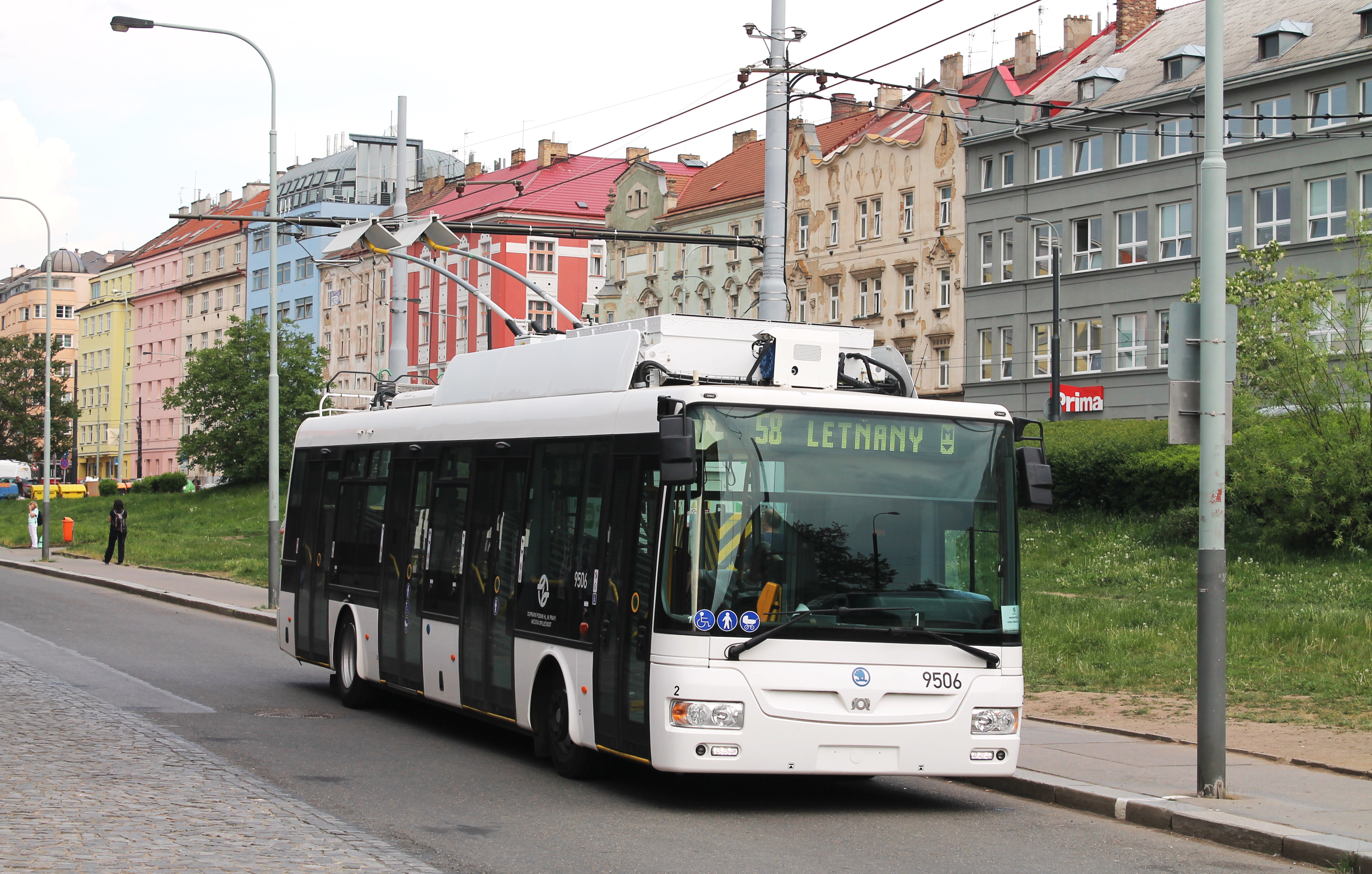 Škoda 30Tr SOR No. 9506 trolleybus, Libeň, Praha, Czech Republic